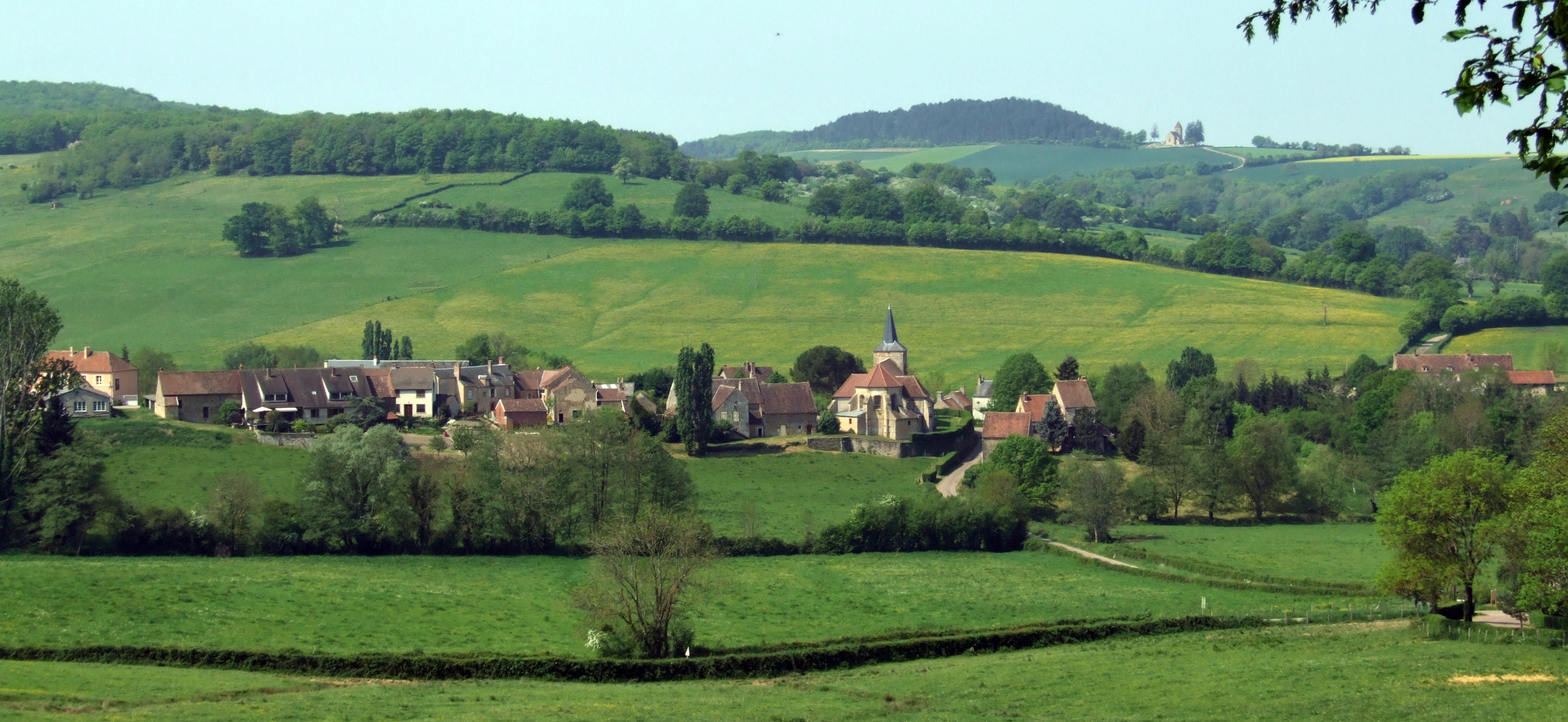 Bazoches, Nievre, Burgundy, FRANCE